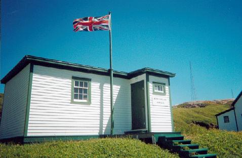 NEWFOUNDLAND RANGER'S DETACHMENT, BATTLE HARBOUR 25TH JULY 2002 Port Hope Simpson Off The Beaten Path Llewelyn Pritchard